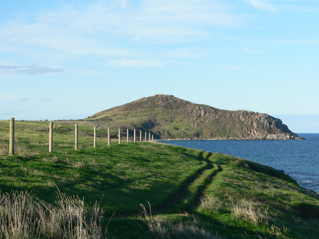 The western side of the Bluff at Victor Harbor